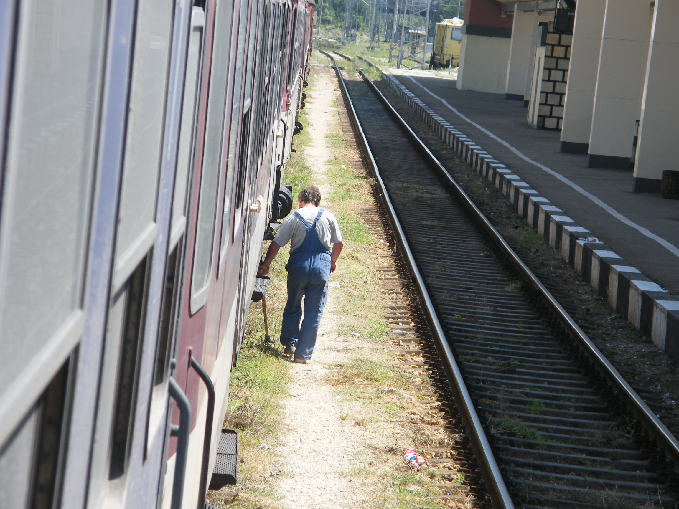 Wheel tapper on the Bulgarian railway